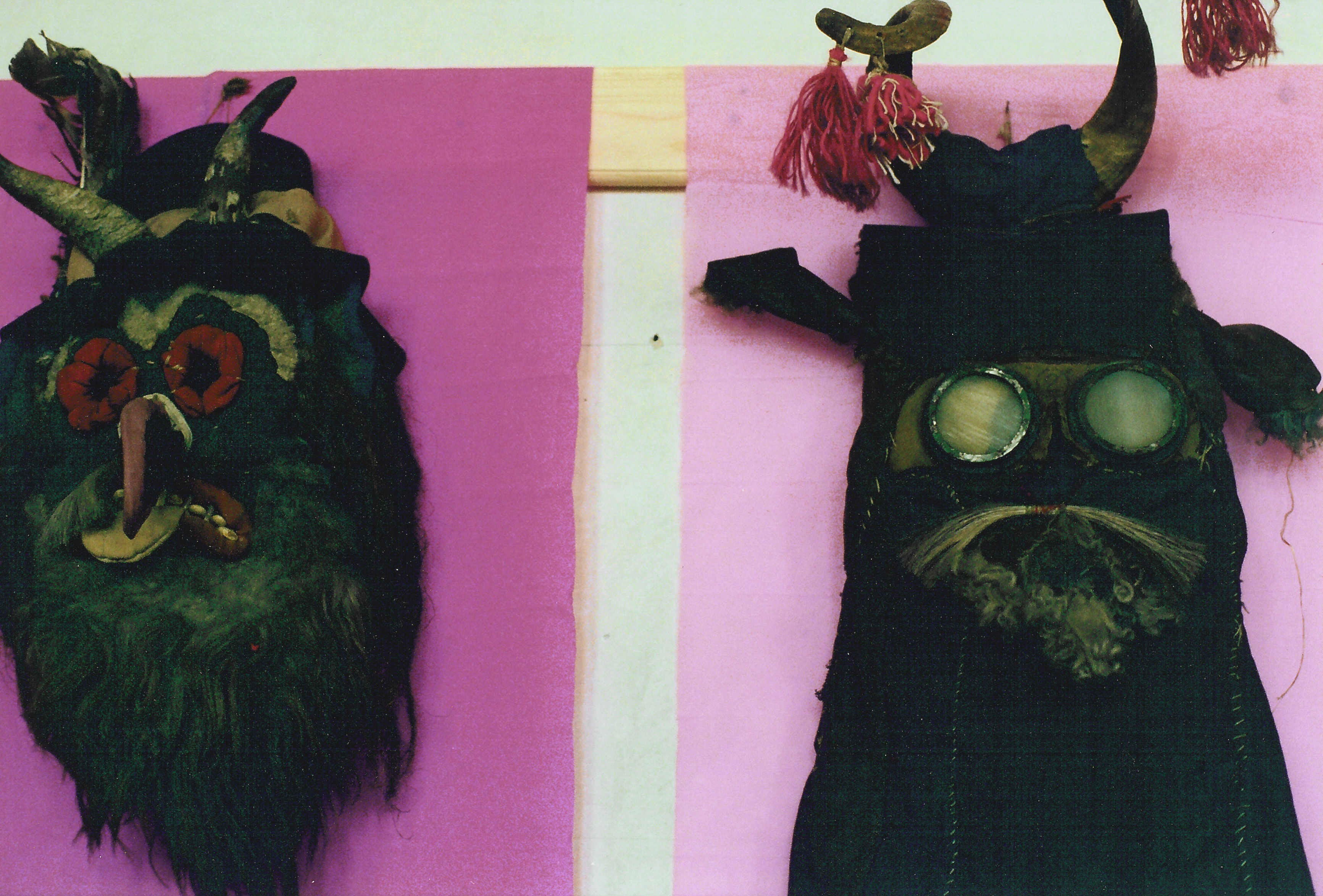 Masks, used for Romanian peasant dances, and festivities associated with the period between Christmas and Epiphany. Museum of the Romanian Peasant, Bucharest, Romania. (Muzeul Ţaranului Român, Bucureşti, România.) See The Masks Customs on the site of that museum for some discussion of these traditions.